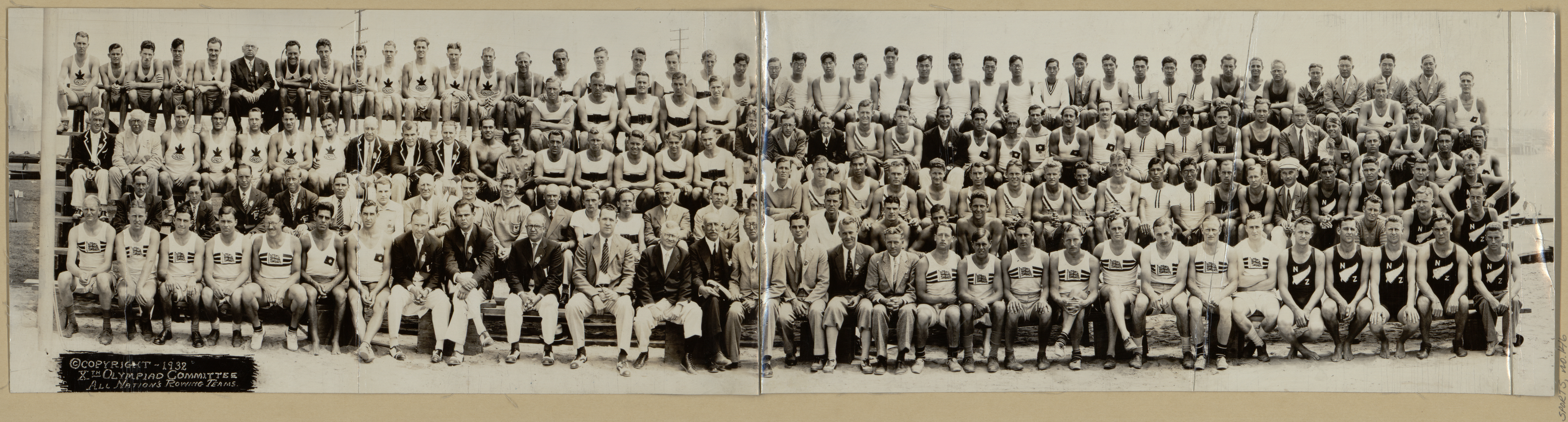 Group photo from the 1932 Summer Olympics, featuring the rowing teams of all participating nations (Australia, Brazil, Canada, France, Germany, Great Britain, Italy, Japan, the Netherlands, New Zealand, Poland, the United States, and Uruguay).